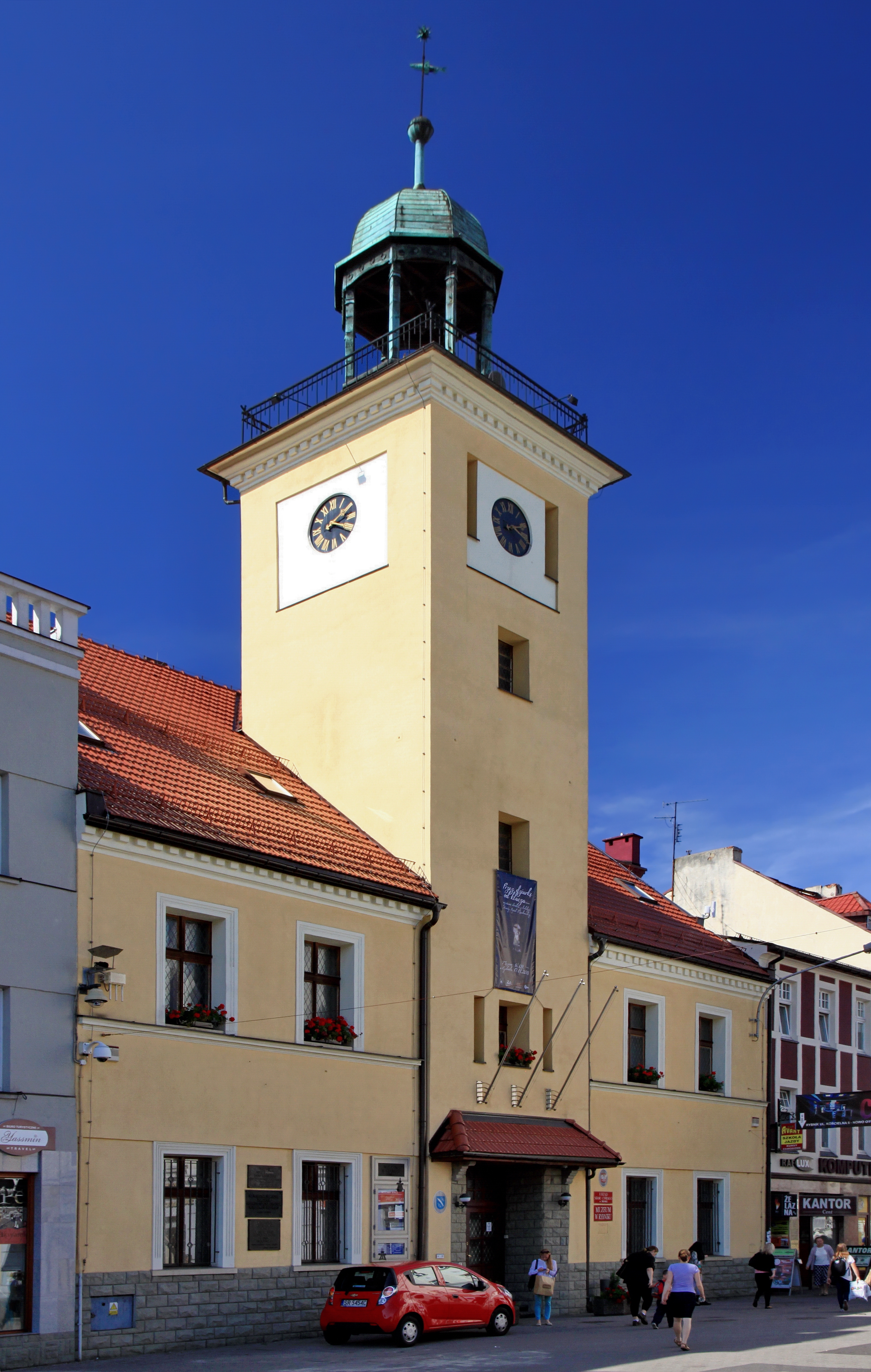 Rybnik, former Town Hall, now registry office and City ​​Museum, build in 18th century